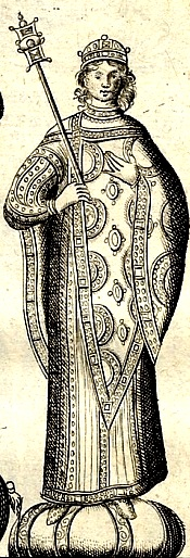 Byzantine imperial portrait of Constantinos Palaiologos, son of Michael VIII.